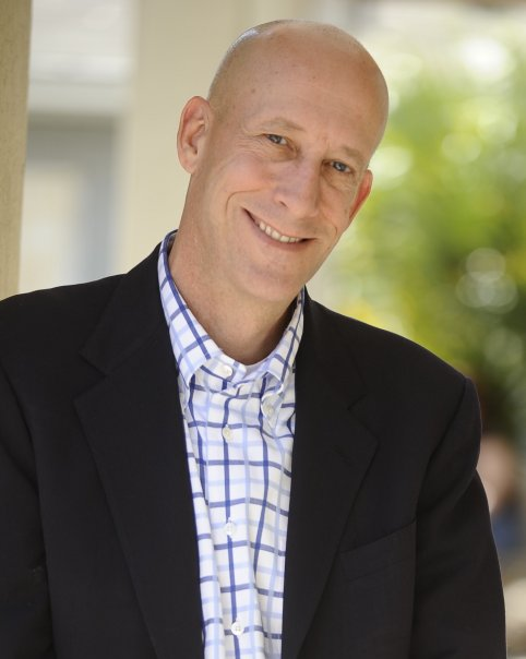 Mike Dooley 2015